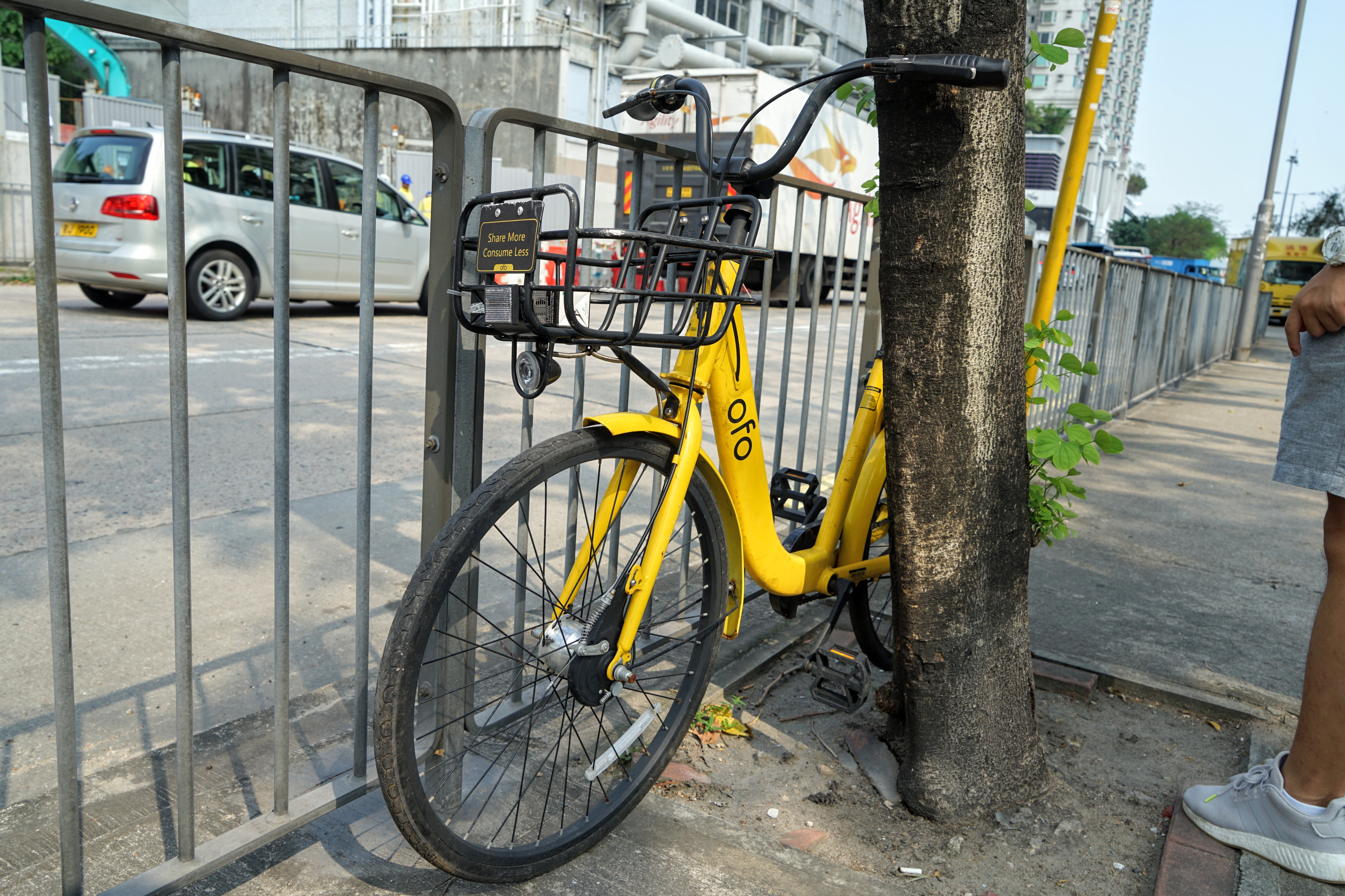 Abandoned OFO In HK